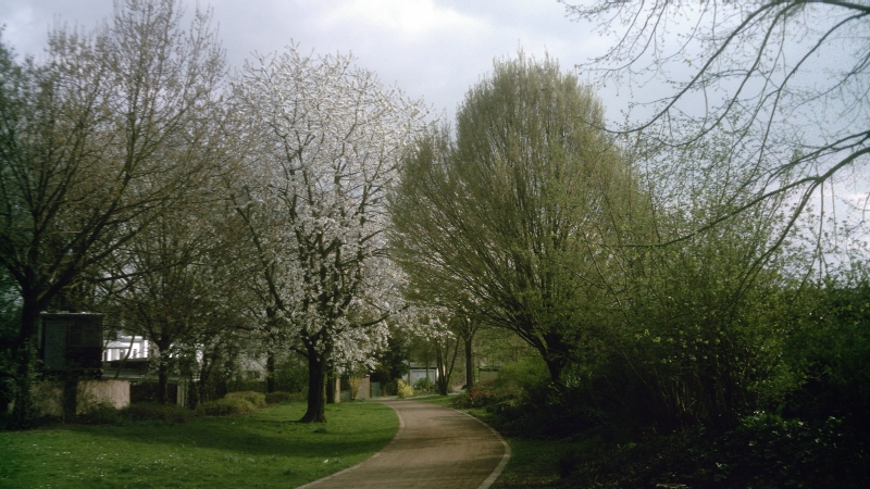 "Im Hoser" (Path), Hoser, Viersen, Germany